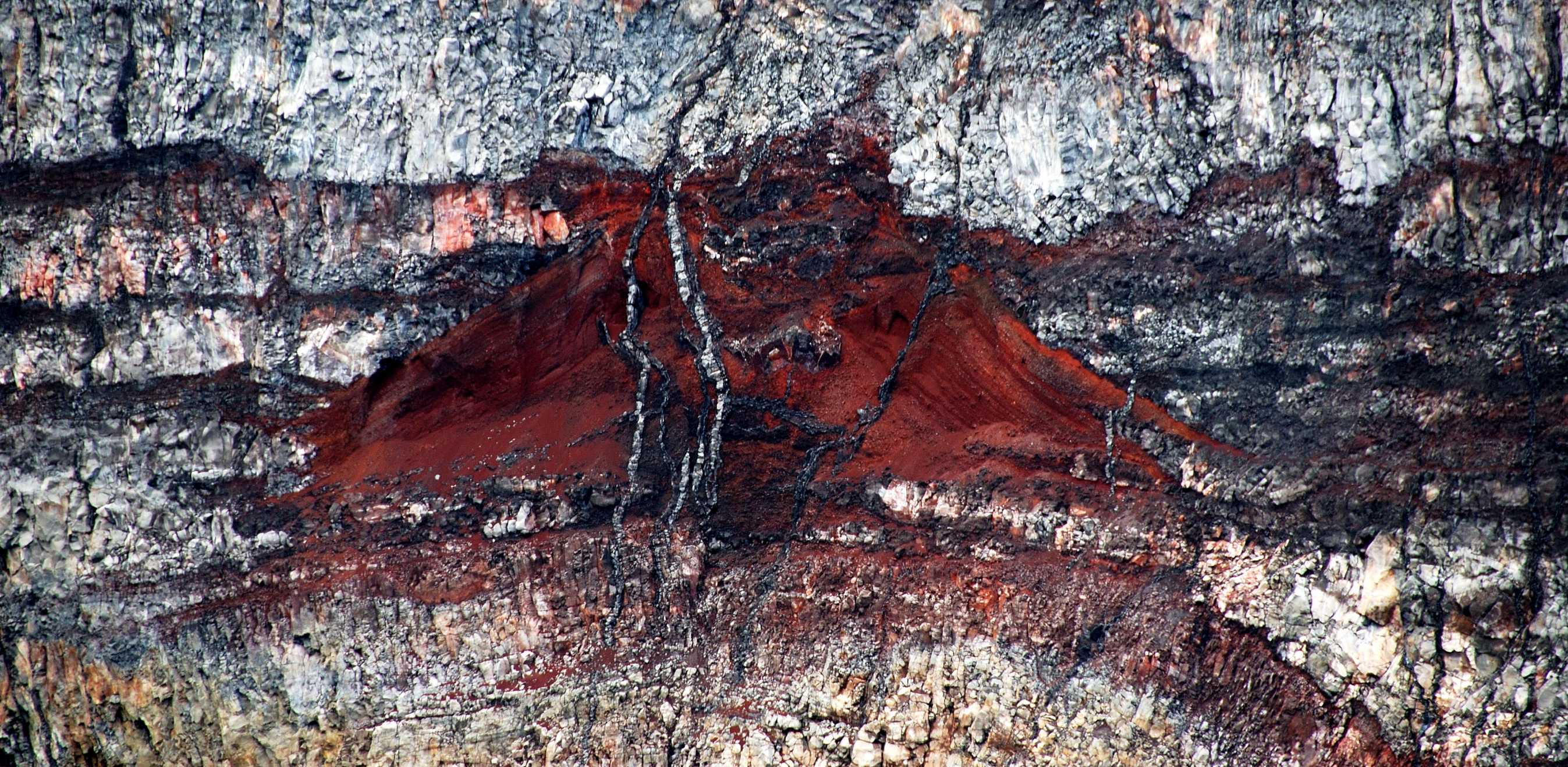 Former cinder cone buried under layers of lava in the Dolomieu crater (the main crater of Piton de la Fournaise volcano on Réunion island) and revealed to open air as a section in a cliff after the big collapse of the Dolomieu crater in april 2007.